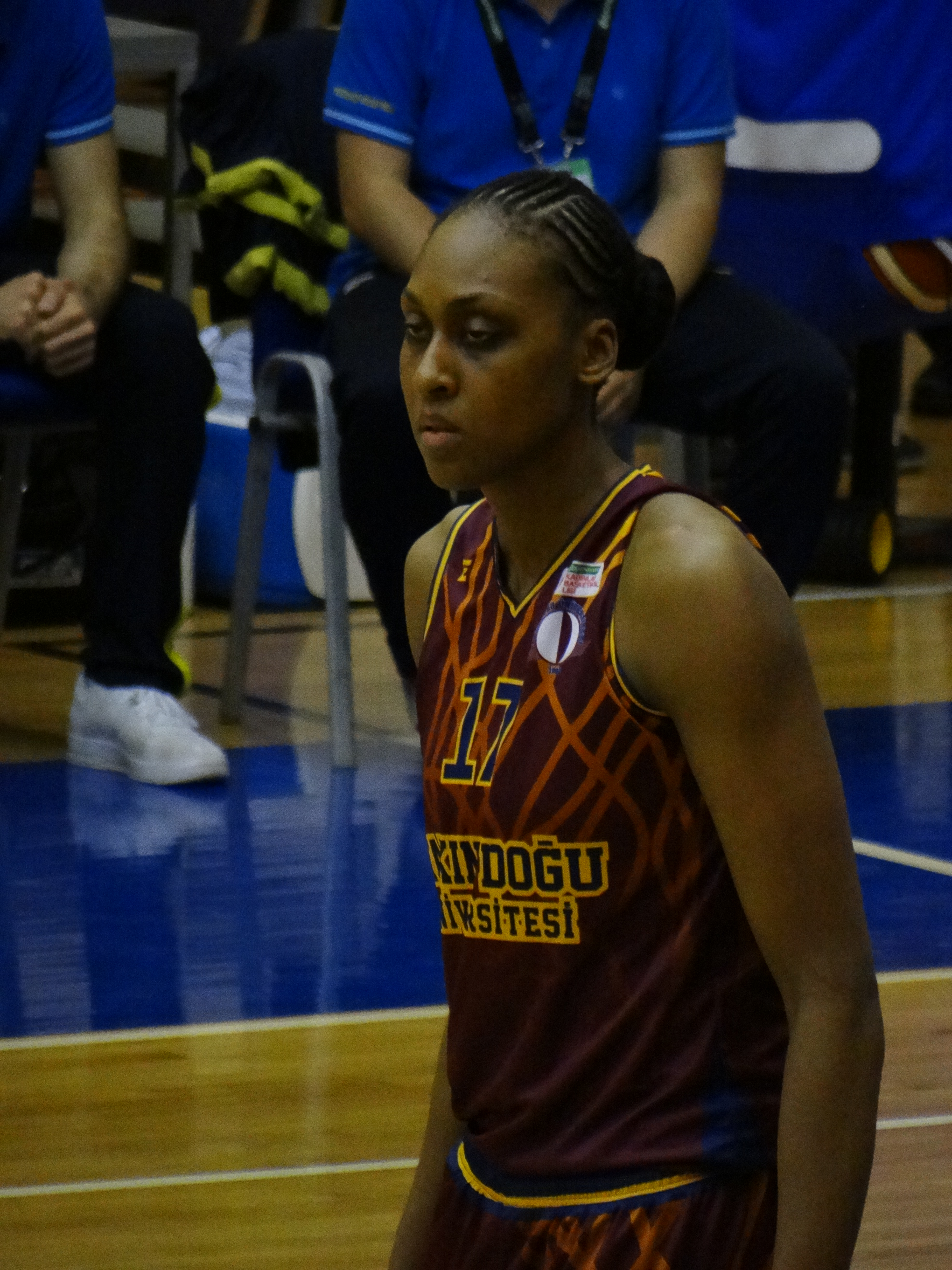 Fenerbahçe Women's Basketball vs Yakın Doğu Üniversitesi (women's basketball) TWBL 20180521